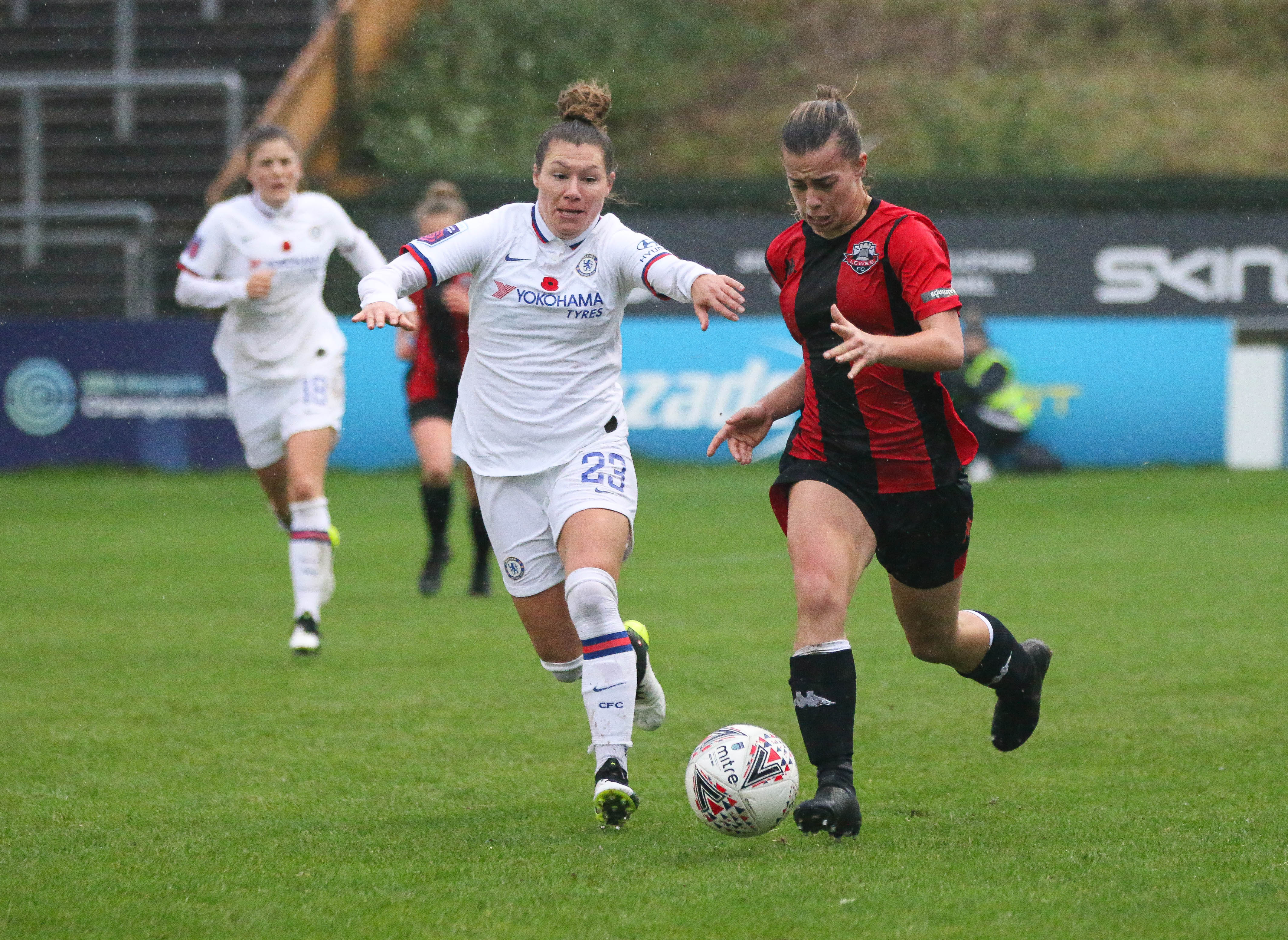 Lewes FC Women 1 Chelsea Women 2 Conti Cup 02 11 2019-Romona Bachmann (Che) Ella Powell (Lewes).jpg